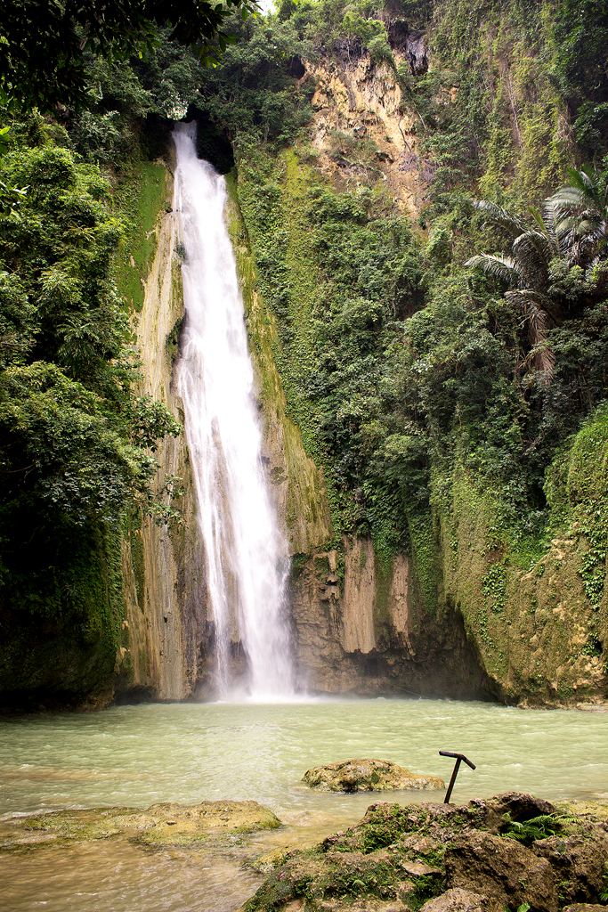 This is a shot of the Mantayupan Falls in Barili, Cebu.